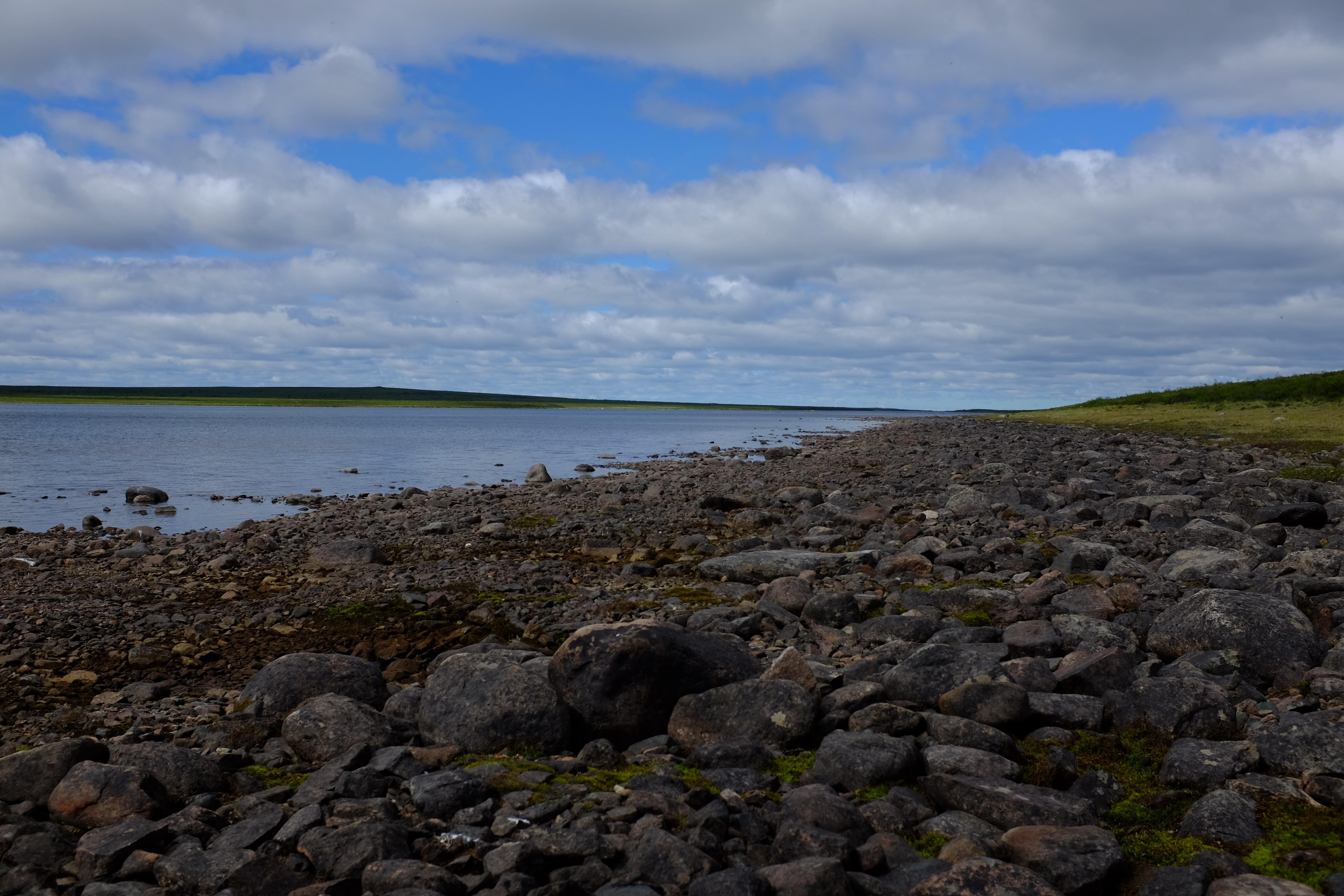 Angikuni lake, on the second day on the lake, going down the Kazan River